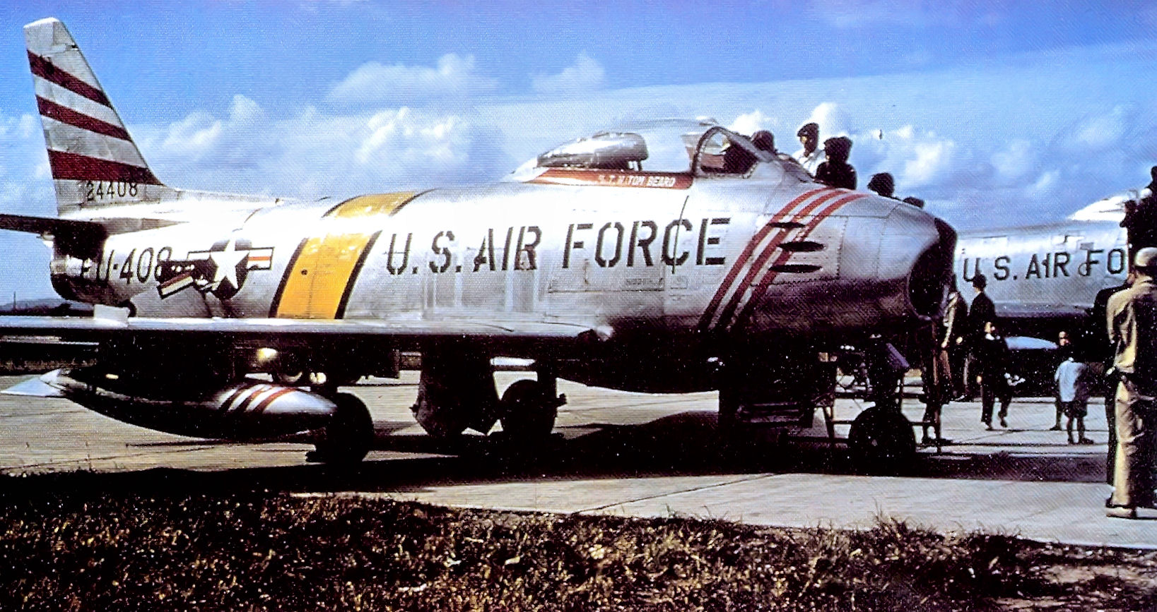 36th Fighter-Bomber Squadron North American F-86F-30-NA Sabre 52-4408 Itazuke Air Base, Japan. 1954